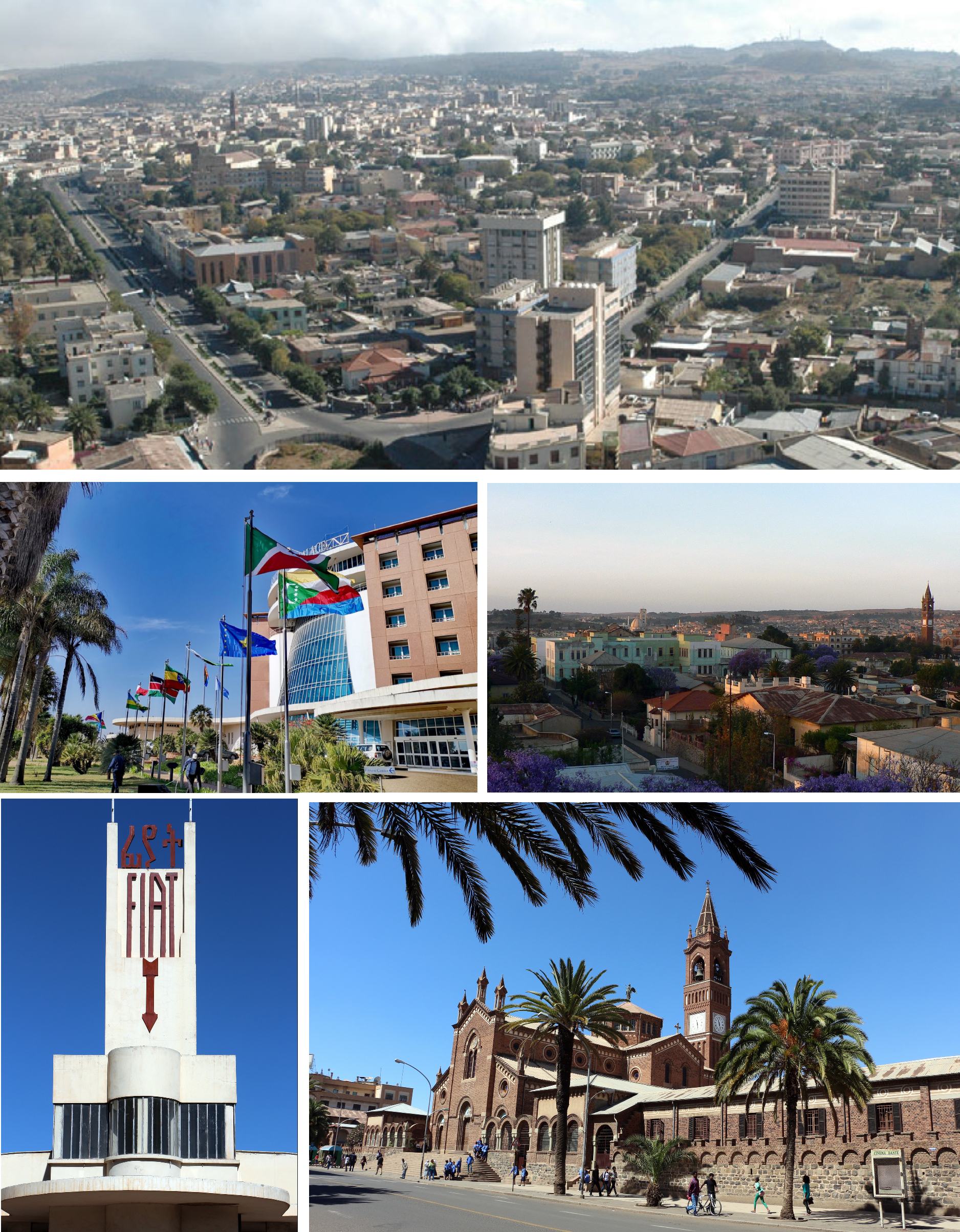 1) View over Asmara 2) ISCOE East Africa Conference 2019 in Asmara 3) View over Asmara during sunset 4) Fiat tagliero building 5) Church of Our Lady of the Rosary